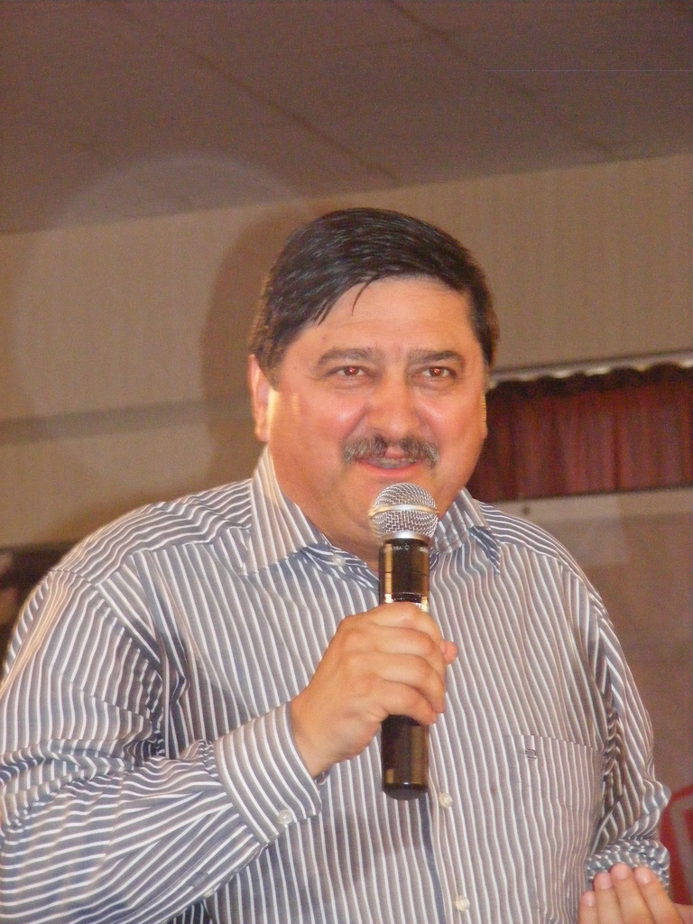 Romanian politician Constantin Niţă speaks to Social Democratic Youth members in Otopeni, September 2009